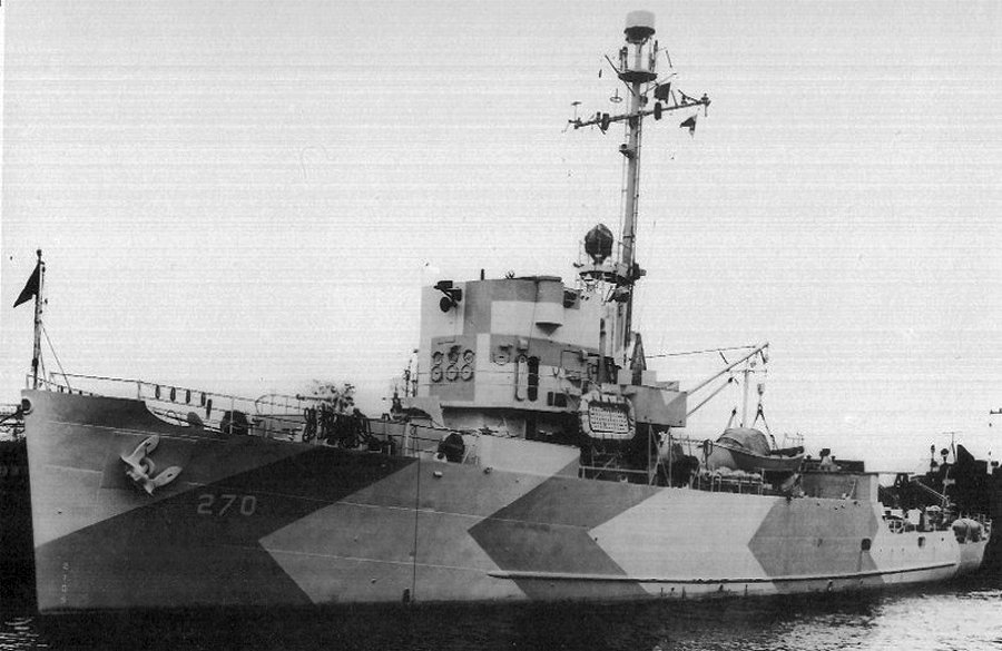 25 April 1944 Norfolk Navy Yard She is wearing Measure 16 - Thayer System colors U.S. Navy photo courtesy of Floating Drydock from "Naval Camouflage 1914-1945: A Complete Visual Reference", by David Williams